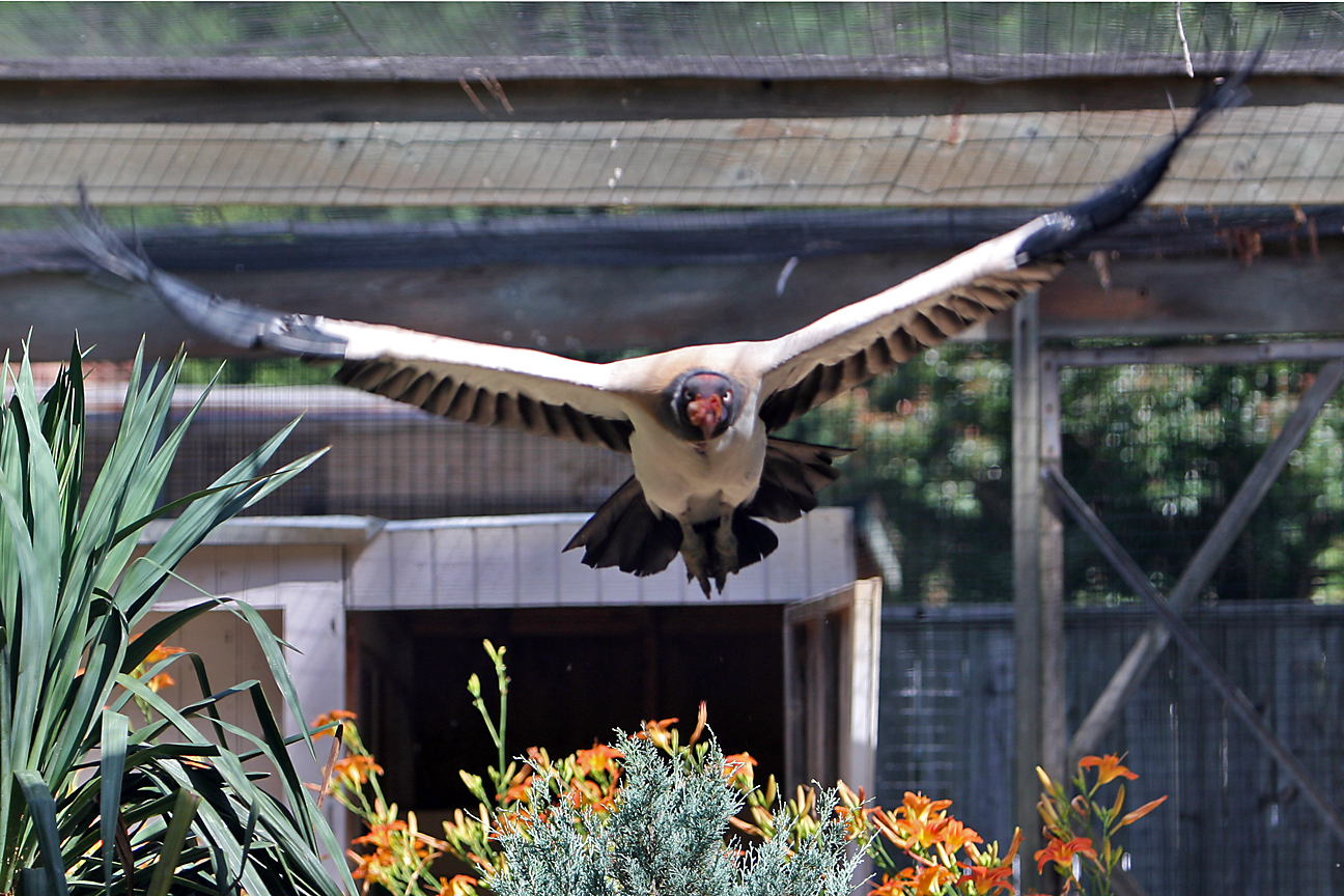 a beautiful bird - a bit out of focus. was half asleep and didn't have my settings right. love his wingspan - suprisingly graceful flier considering how ungainly he is.